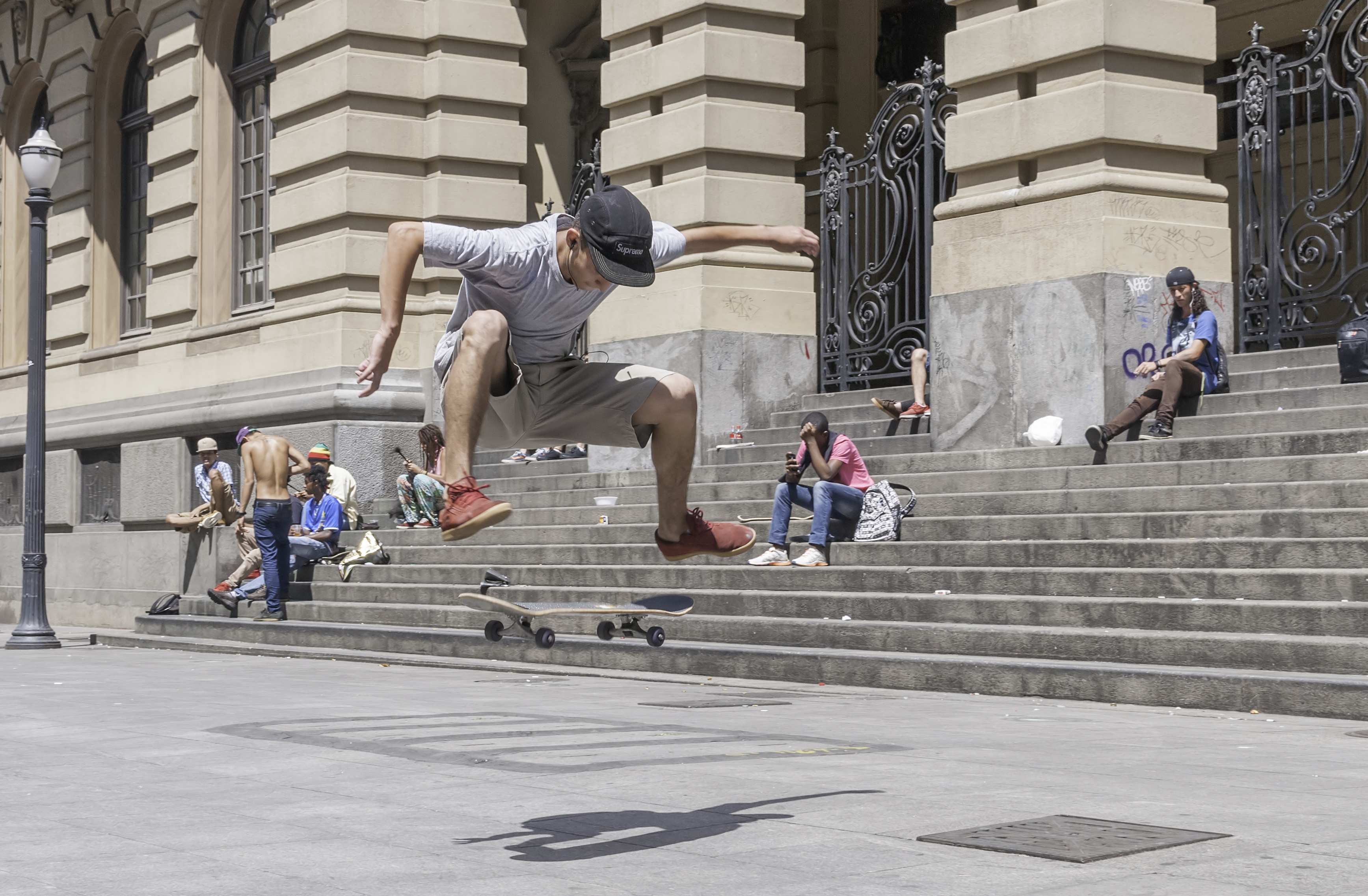 Skateboarding in São Paulo